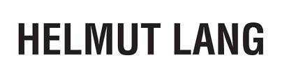 Logo of Helmut Lang (fashion brand)